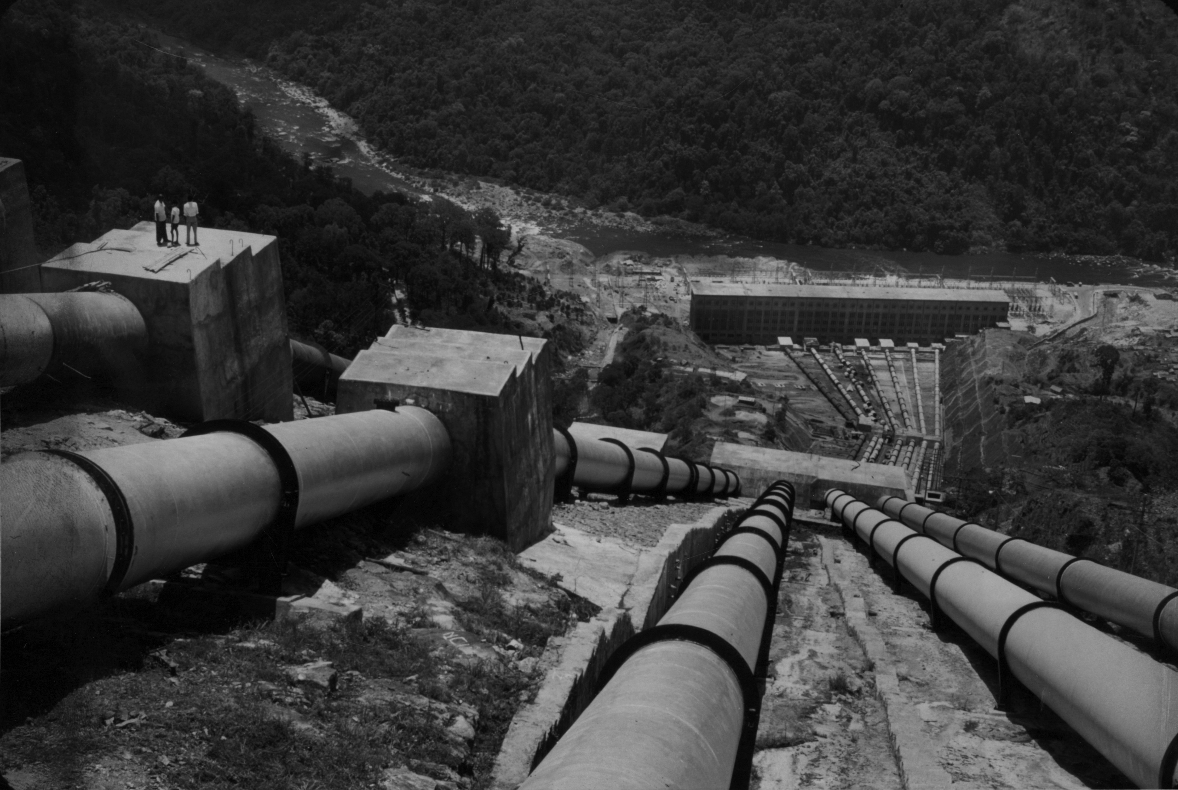 A view of the 1.5-mile-long penstocks of Linganamakki dam which forms a reservoir with a total storage capacity of 156,000 million cubic feet. This dam is part of the $210-million Sharavathi Hydroelectric Project, one of the largest in the world. Its construction has been made possible with large-scale assistance from the U.S. Agency for International Development (AID) to relieve India's power shortage.